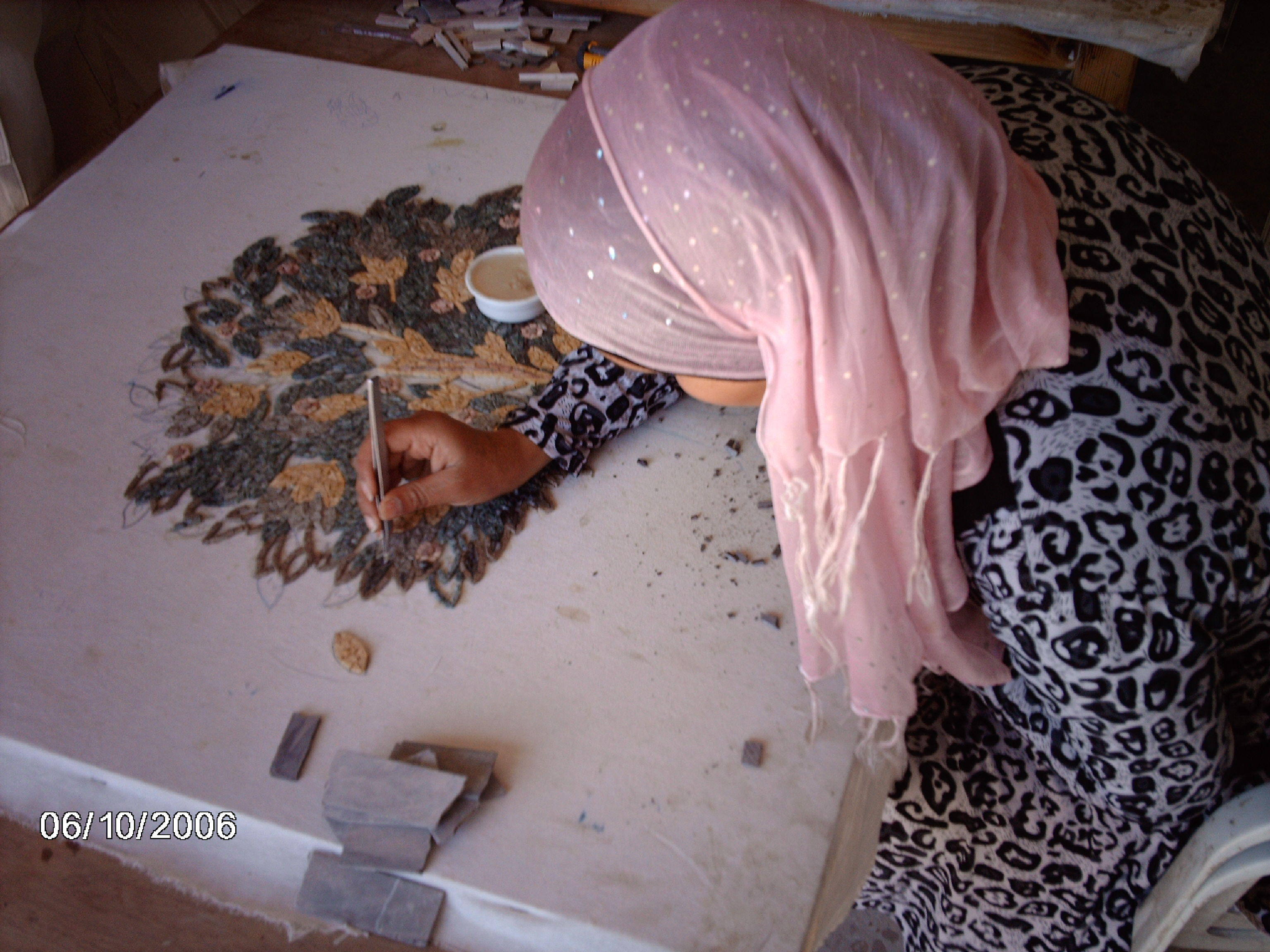 A woman make a mosaic in Madaba.